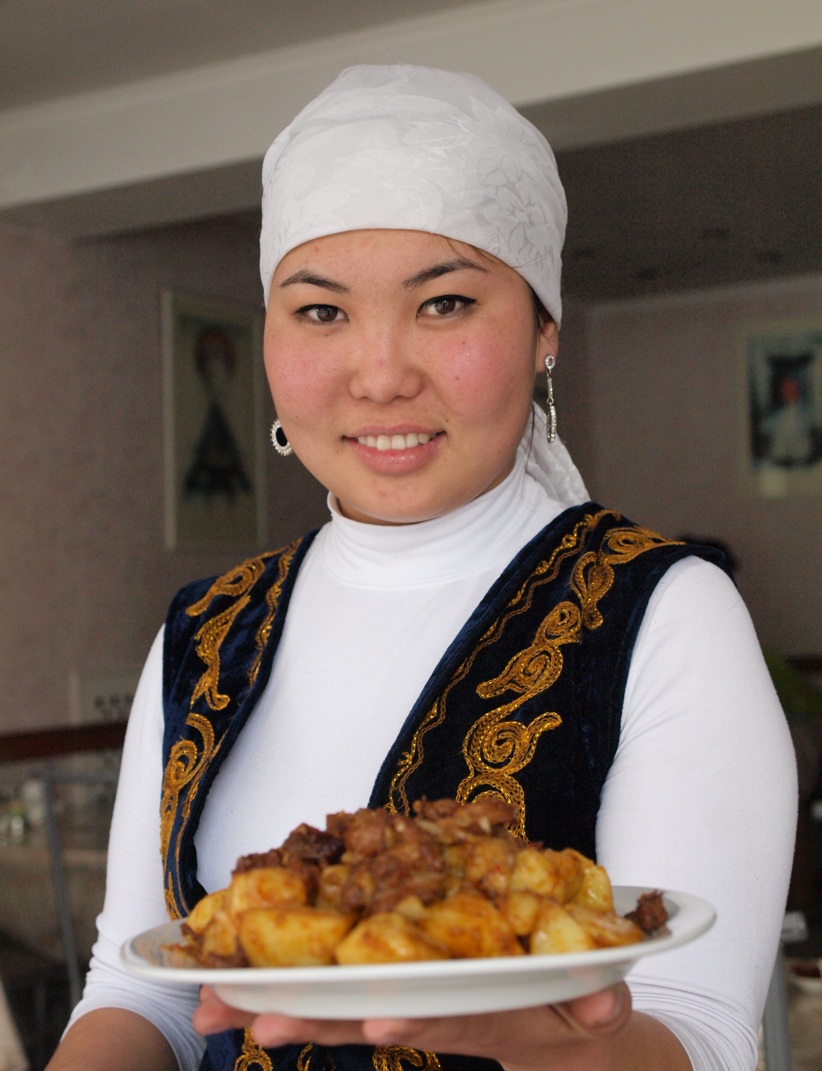 A Kyrgyz woman in national costume with dish. Bishkek, Kyrgystan.